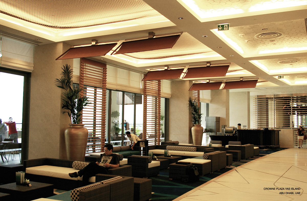 Modern THE SOLITAIRE Punkah fans at a hotel in Abu Dhabi (UAE). They are purely decorative as the hotel is fully air conditioned.